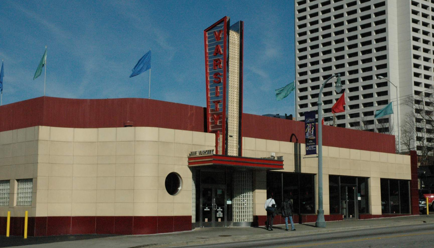 The Varsity restaurant in Atlanta, Georgia. Taken by J. Glover (AUtiger) on December 12, 2004.